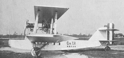 Italian Caproni Ca.73 airliner prototype